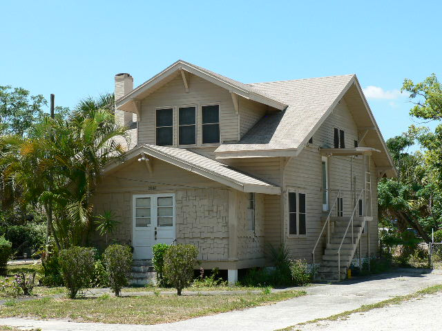 Melbourne (Florida) The cream house Photo J.-P. Donzey